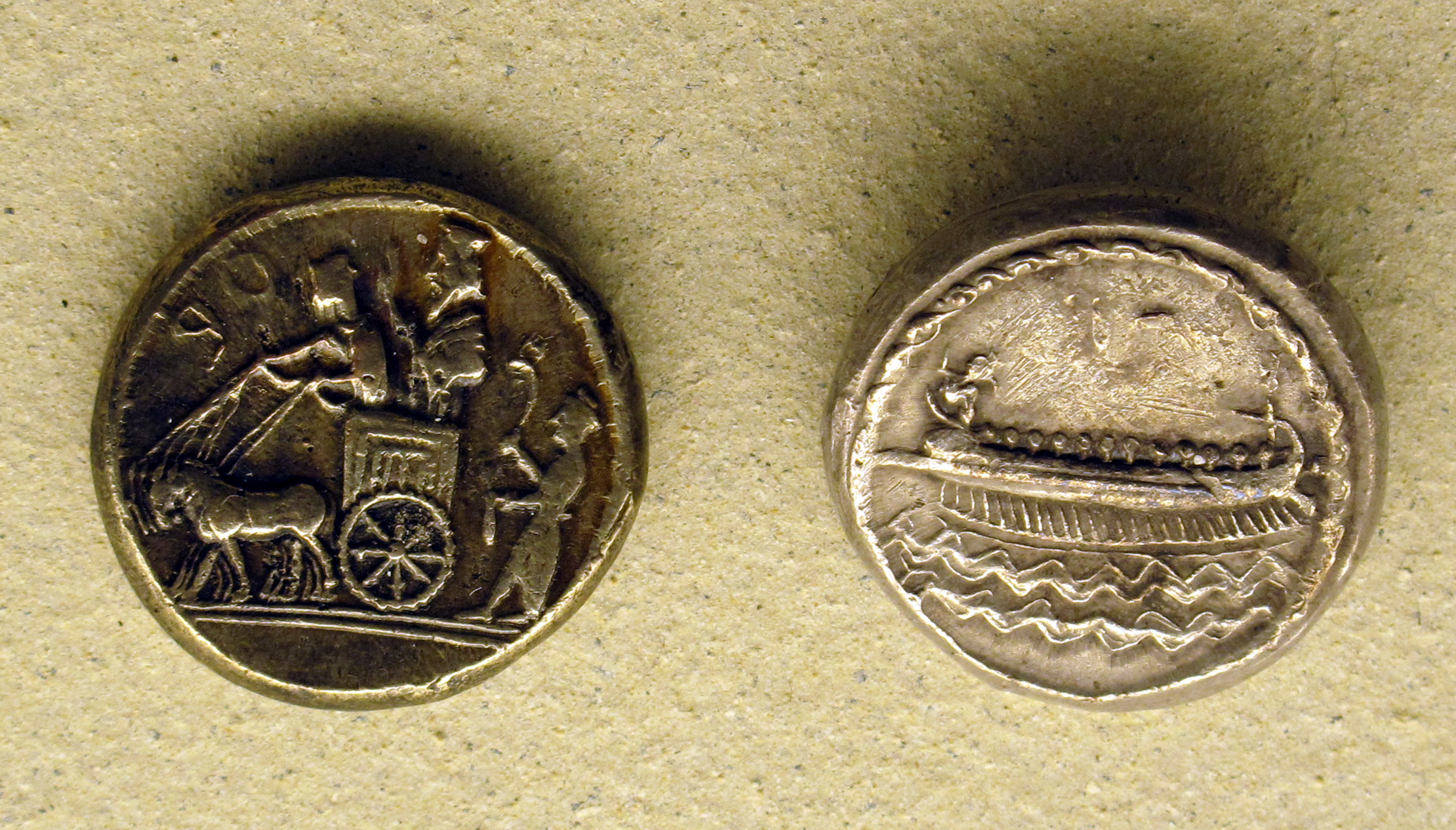 Greek antiquities in the Musée d'art et d'histoire de Genève